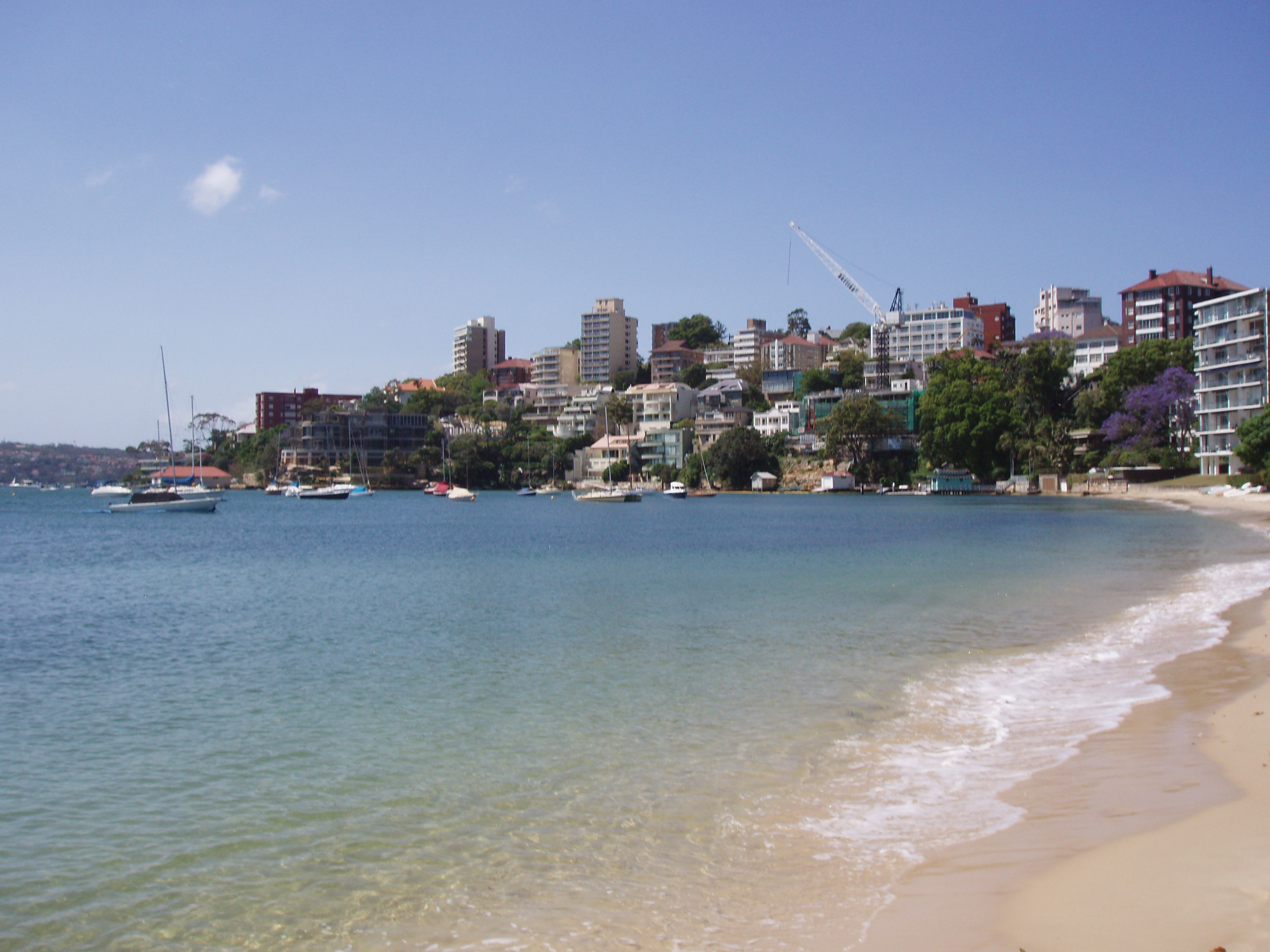 Point Piper in New South Wales, Australia. photo taken 28/10/2006 by